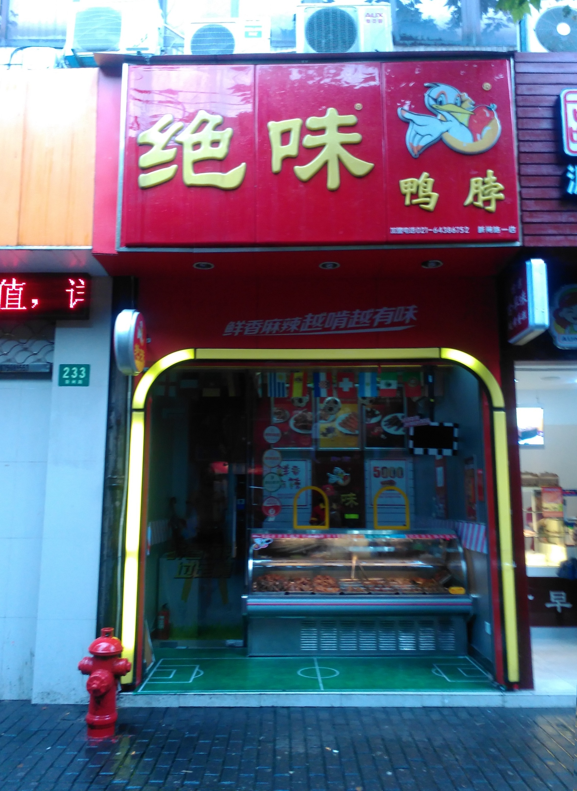 Juewei Duck Neck restaurant in Shanghai